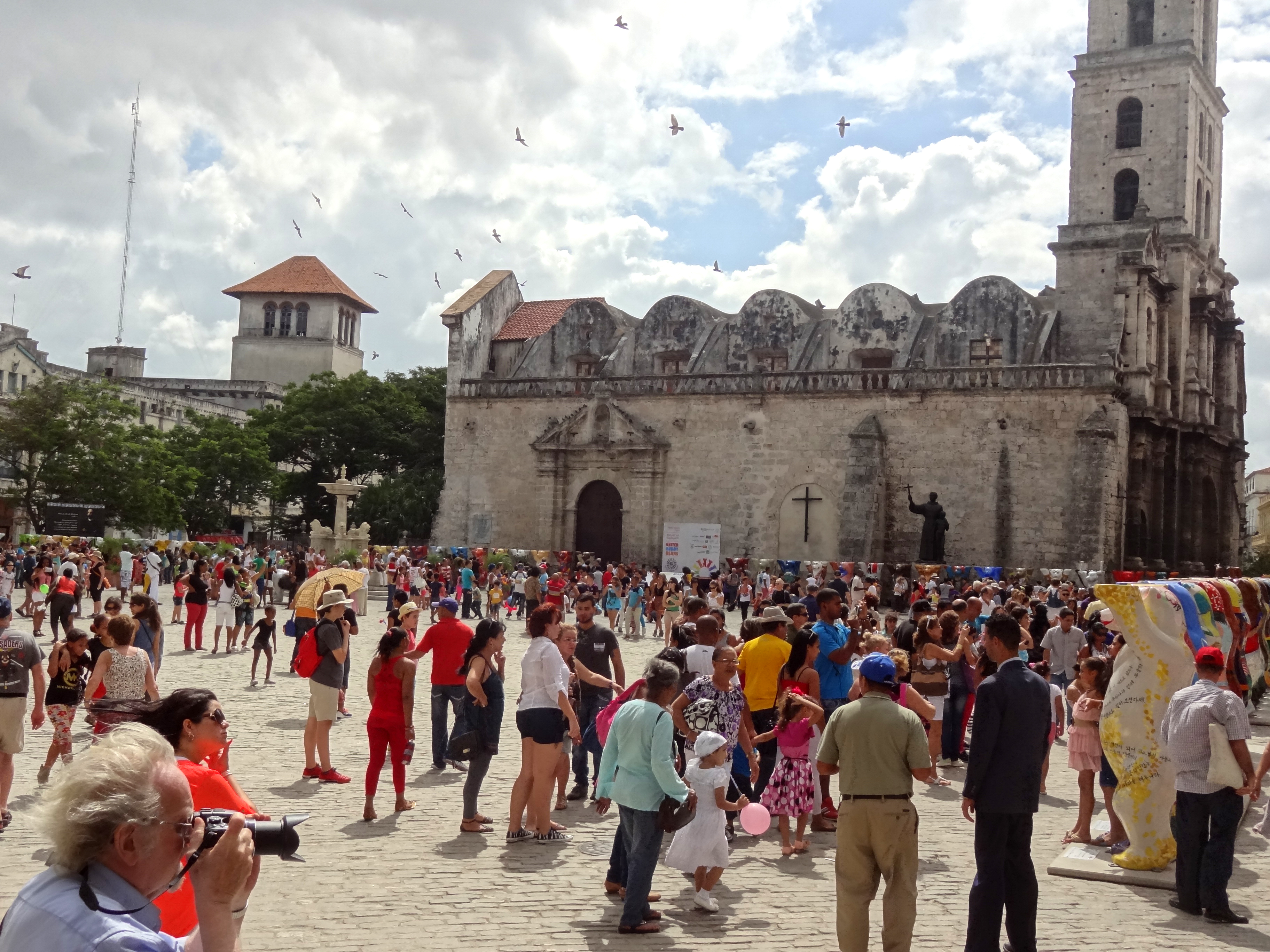 United Buddy Bears, Havana, Plaza San Francisco de Asis, 2015